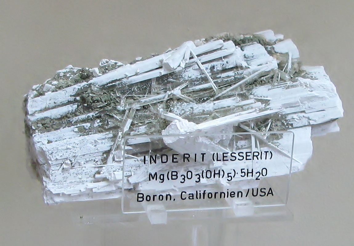 Inderite (Lesserite) - Locality: Boron, Californien, USA - Exposed in the Mineralogical Museum, Bonn, Germany